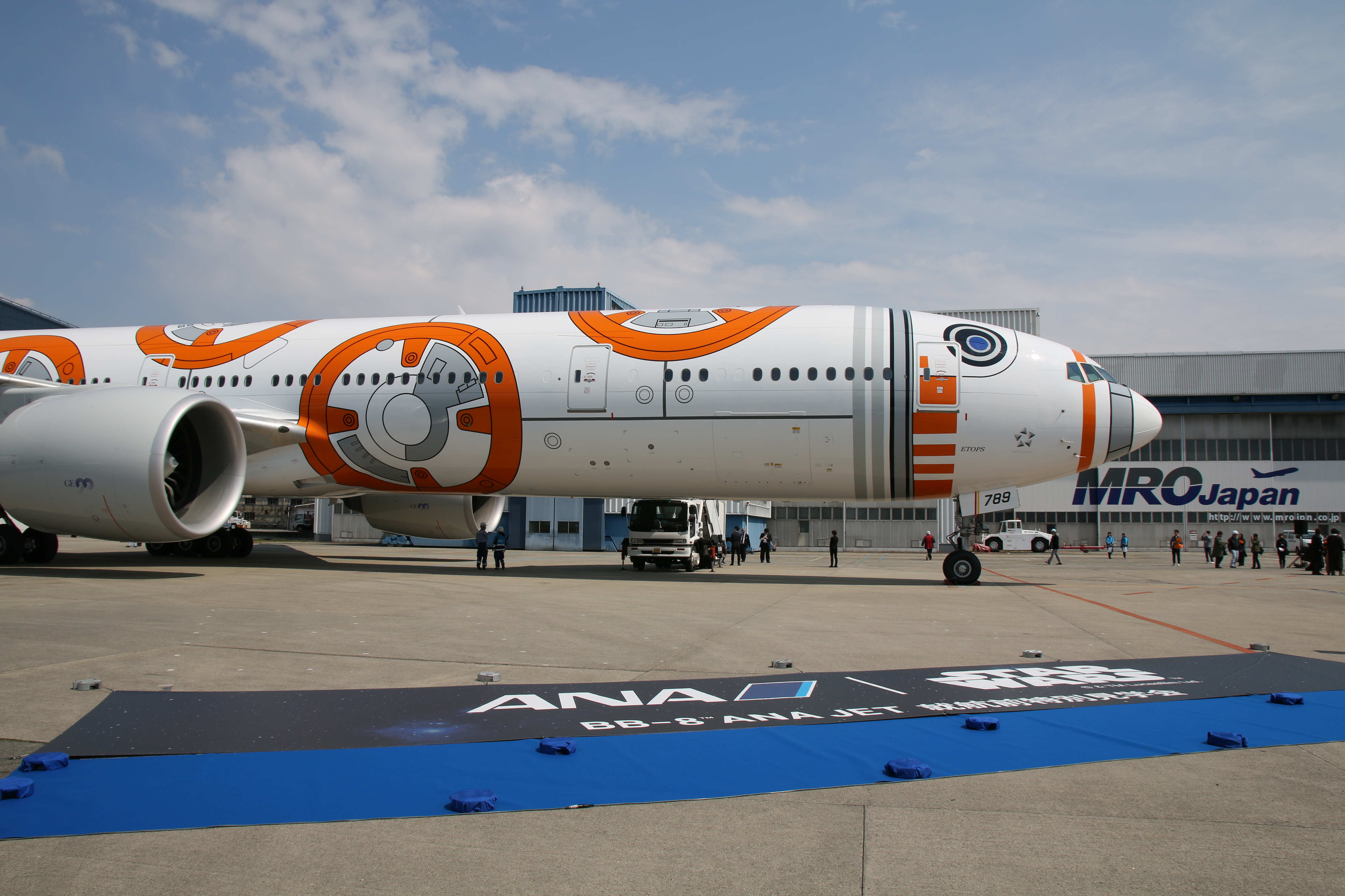 All Nippon Airways Boeing 777-381(ER) painted in "Star Wars - BB-8" special colours